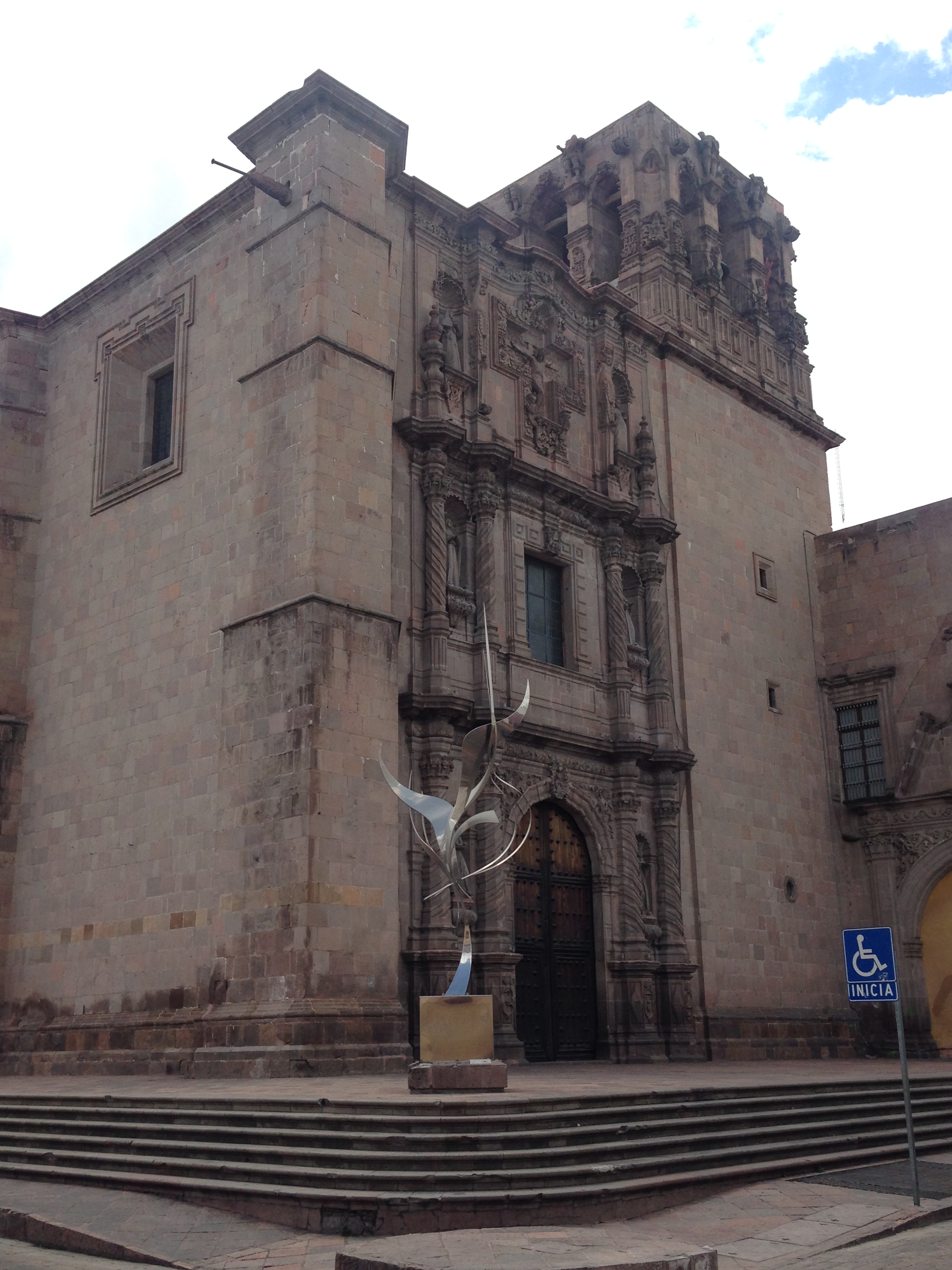 Facade of Saint Augustine Church on Historic Monuments Zone of Queretaro. One can see Leonardo Nierman's steel sculpture.